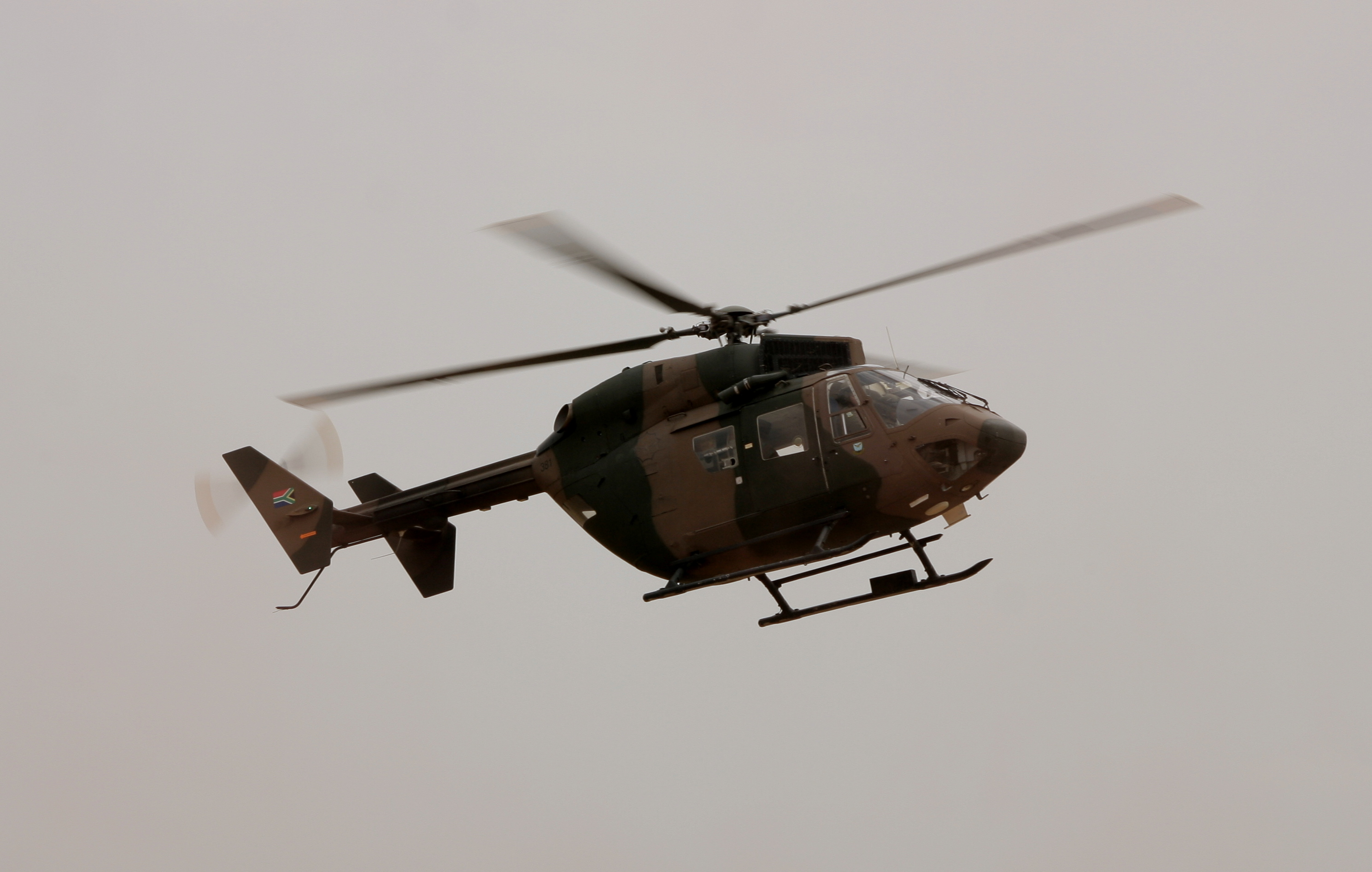 BK 117 in 15 Squadron SAAF service